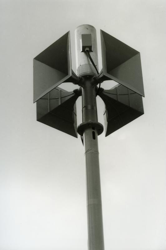 Pneumatic high-performance siren